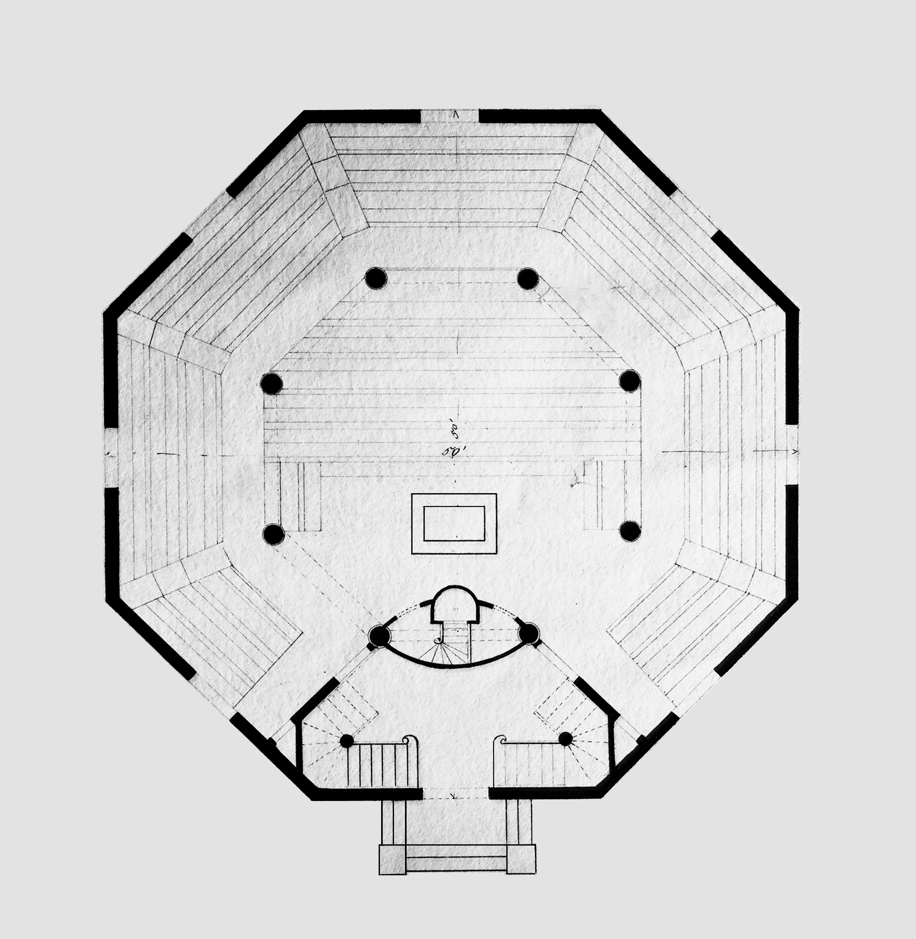 Plan by Daniel Engelhard for the church in Heimarshausen